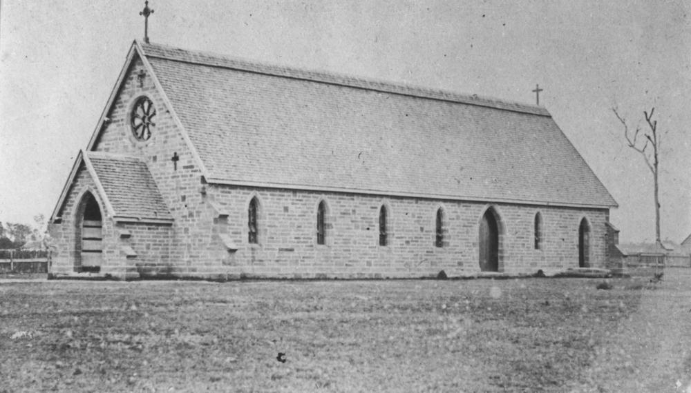 First St. Mary's Roman Catholic Church, ca. 1865. Erected in 1864 at the corner of Palmerin and Wood Streets, this church building still stands on the original site, adjacent to the new church which was opened in 1926. The first Catholic Mass in Warwick was served in 1854 at the Horse and Jockey Inn by Father McGinty, who arrived on horseback from Ipswich. In 1862 Warwick became an indepepdent parish and the first resident priest was Dr. Cani, later the Bishop of Rockhampton, during whose pastorate the church was constructed. (Description supplied with photogaph)